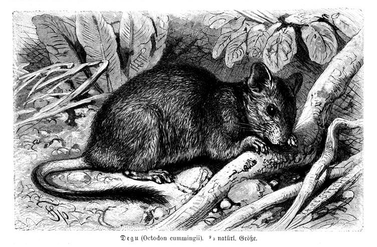 Octodon cummingii (Octodon degus); reprod.Alfred Brehm 1883